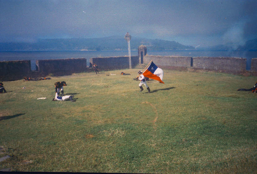 Battle of Chile